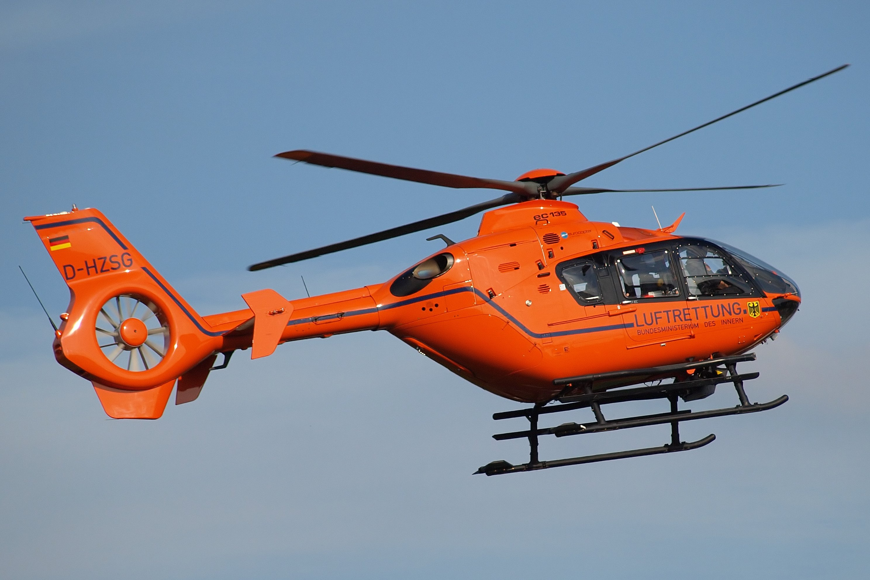 German rescue helicopter "Christoph 13" during an emergency flight.